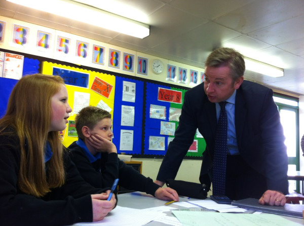 Sec of State for Education Michael Gove at Chantry High School, Ipswich.